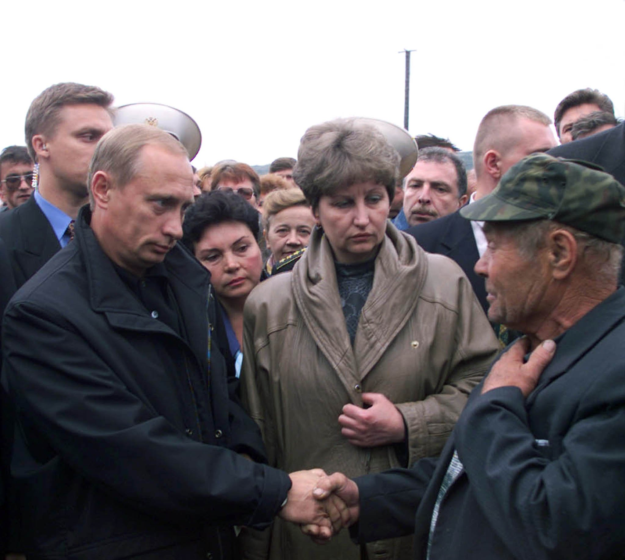 VIDYAYEVO, MURMANSK OBLAST. Meeting with relatives of lost sailors of the nuclear submarine "Kursk".